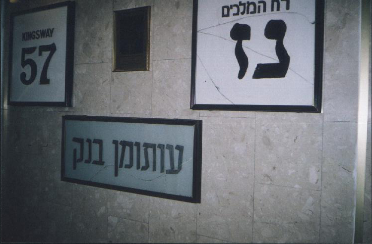 Original sign at Ottoman Bank building, now office premises, in central Haifa Israel. This is a scanned photograph.